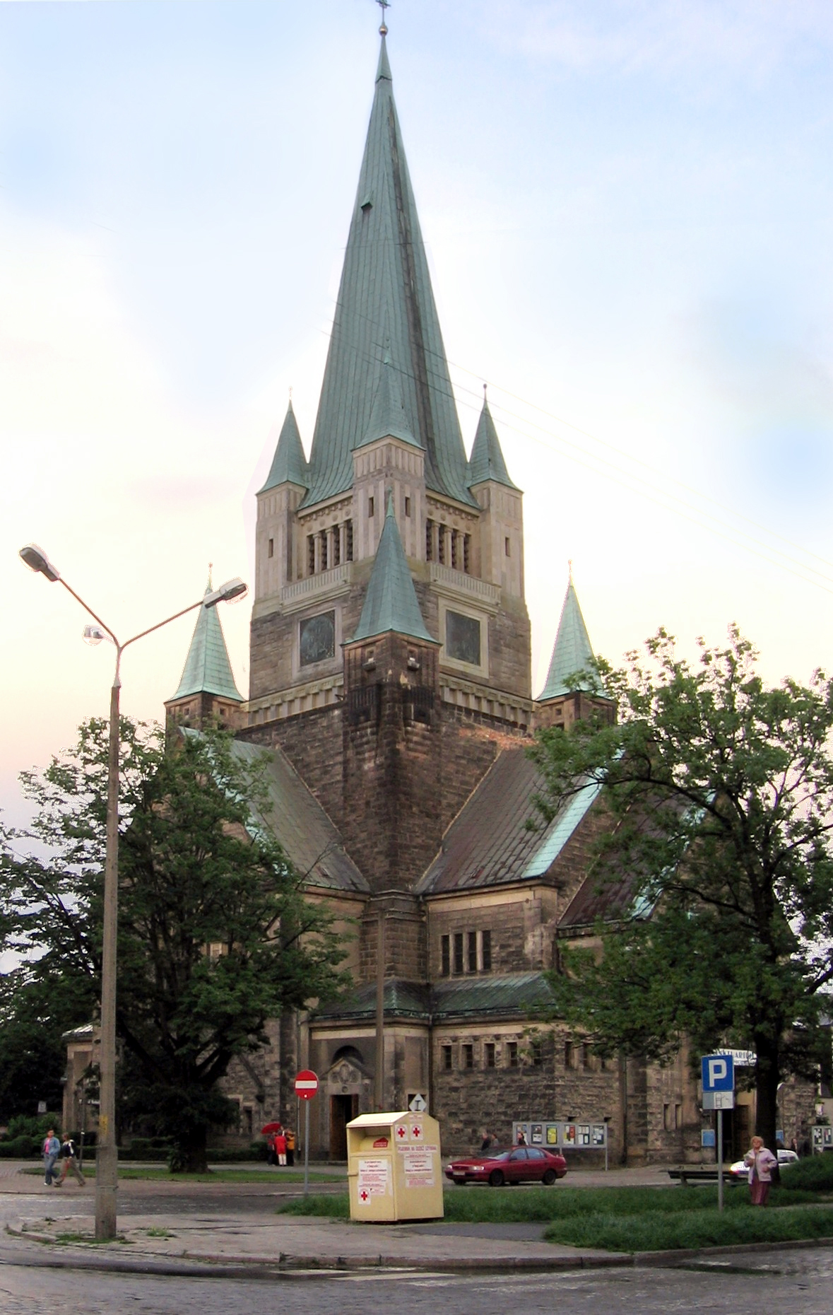 Wrocław. Poland - St. Augustine of Hippo church, Sudecka street